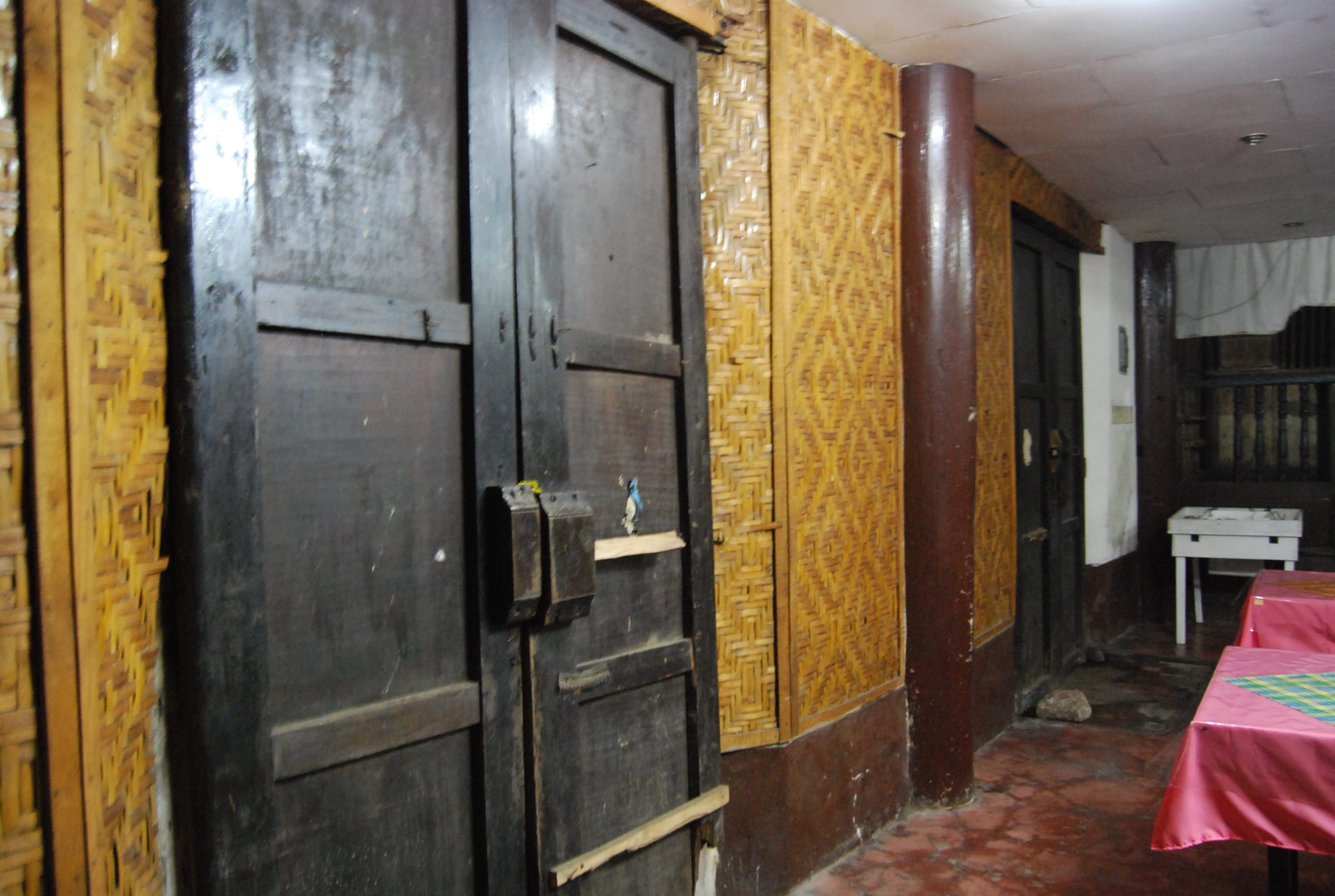 Vega Ancestral House Features, Details and Neighboring Heritage Houses